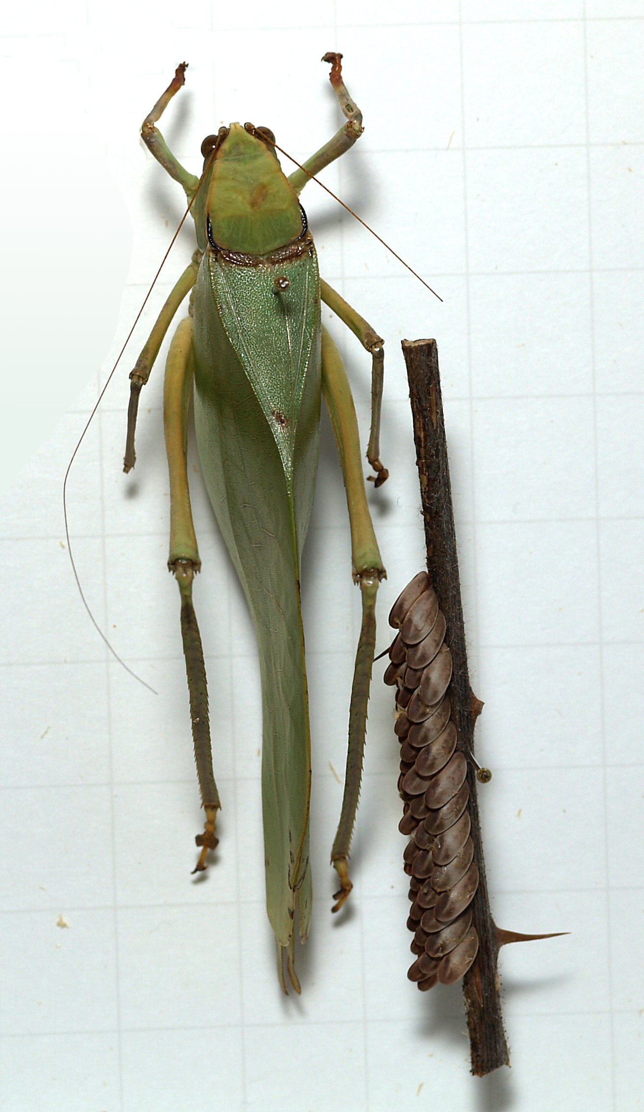 undetermined Phaneroptera species